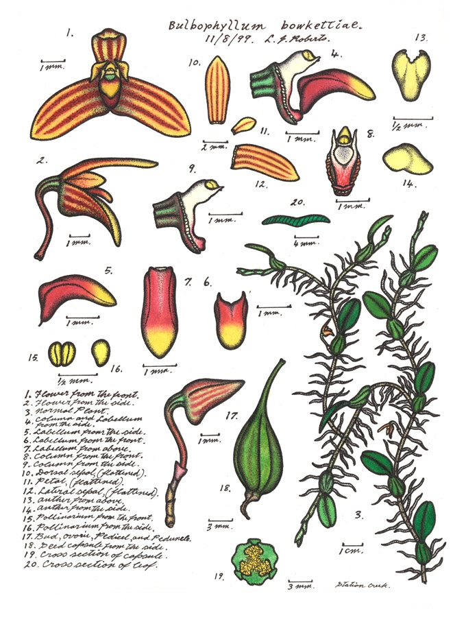 Botanical illustration of an orchid from the fa north-east of Queensland by Lewis Roberts. John E. Hill (talk) 08:29, 1 June 2009 (UTC)